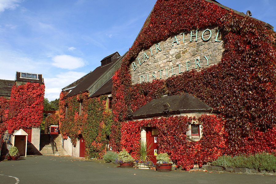 Blair Athol Whisky Distillery, Pitlochry, Scotland